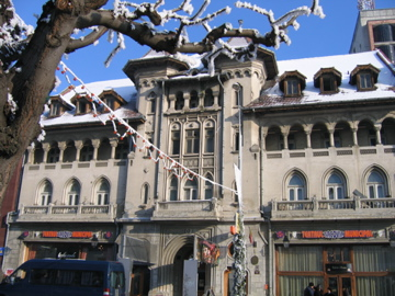 Bacau, Theater "George Bacovia". Copyright: Mihaela Anitei